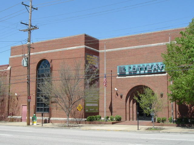 KY Lotto headquarters in Portland